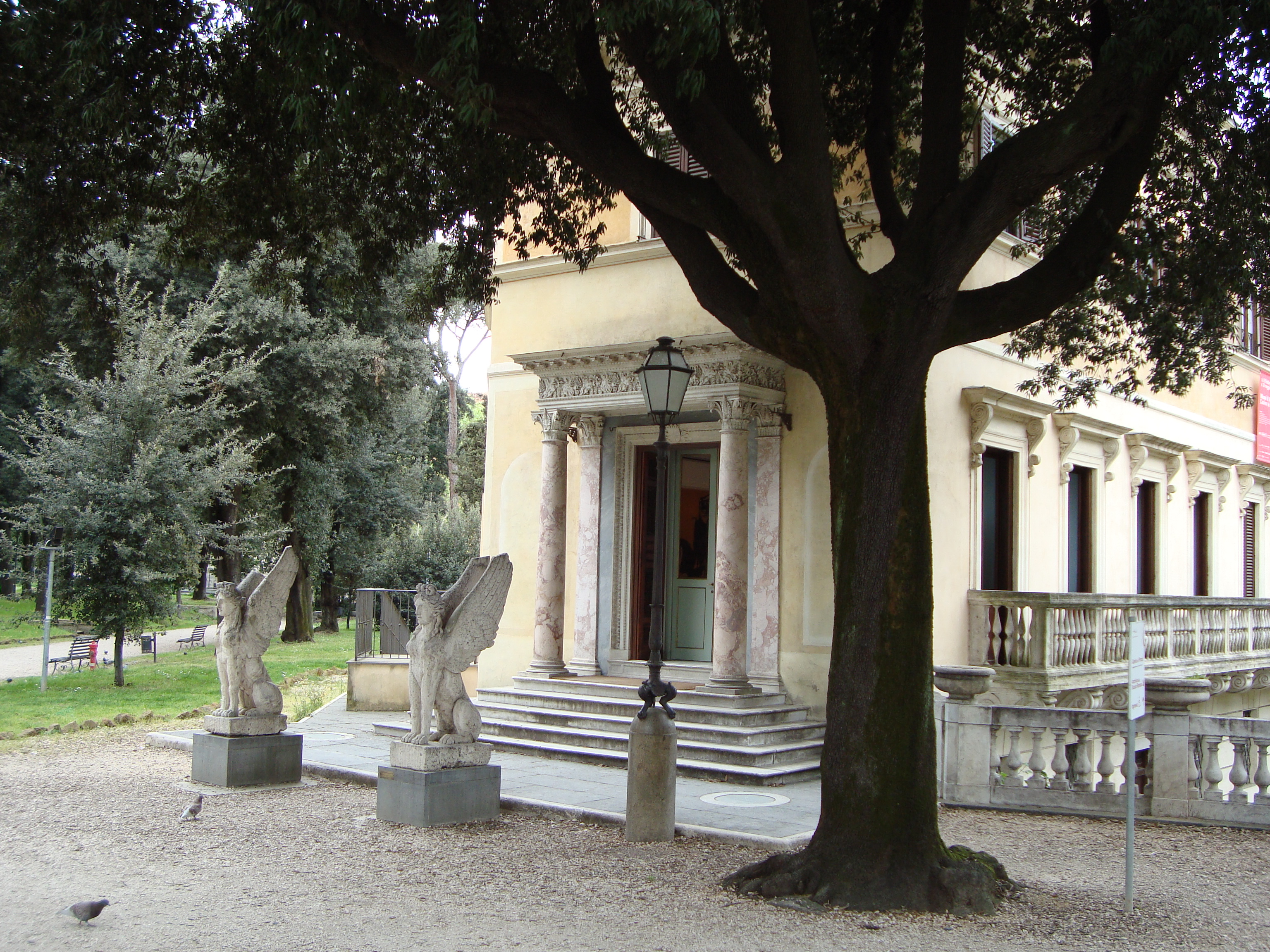 Le Casino dei Principi de la villa Torlonia à Rome